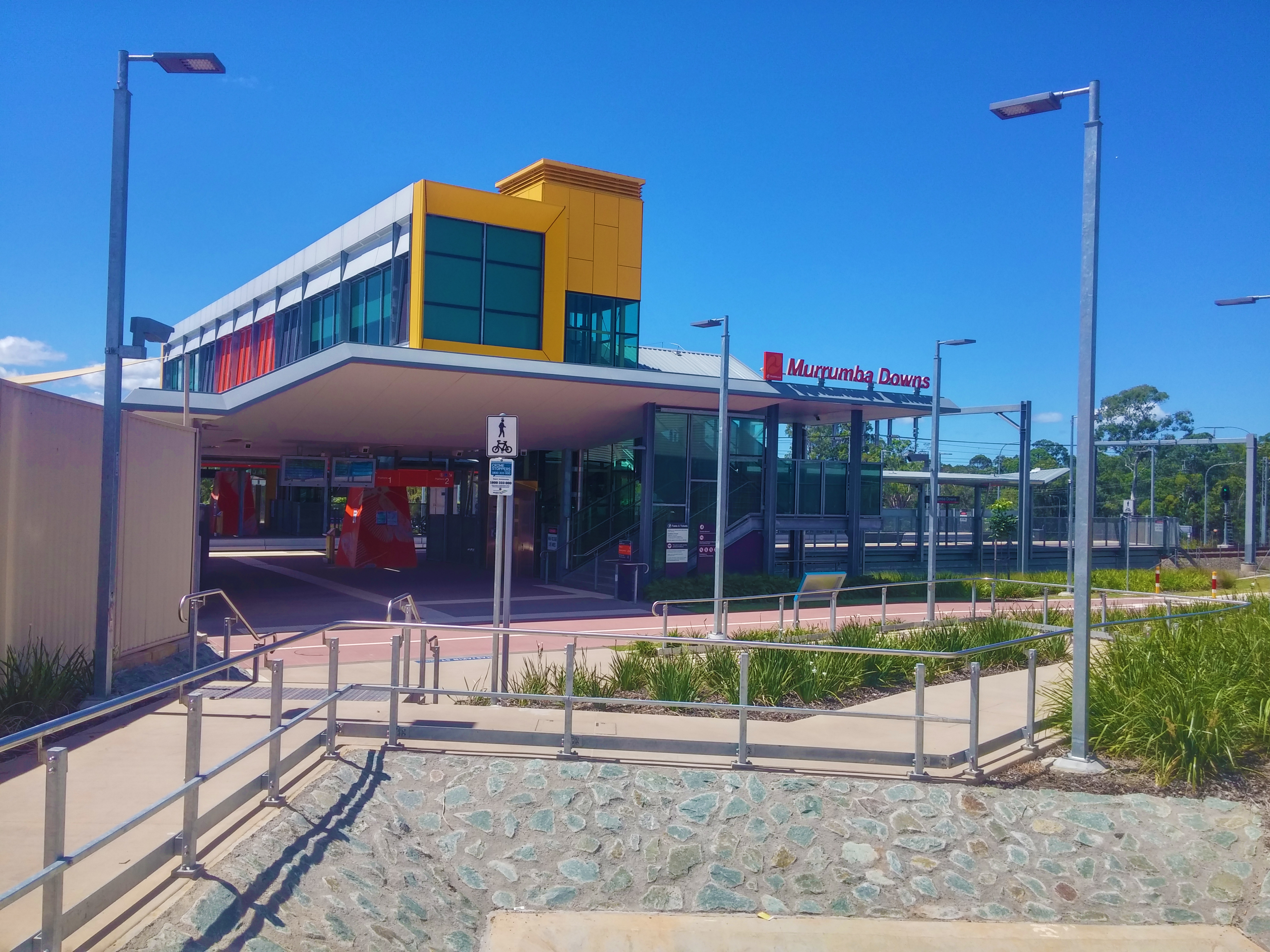 Murrumba Downs railway station on the Moreton Bay line in Brisbane.